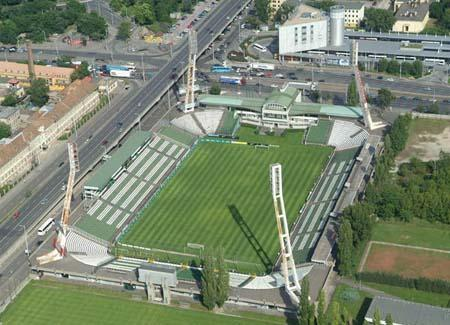 Albert Flórián Stadion, Ferencváros Budapest, Hungary, aerial photography